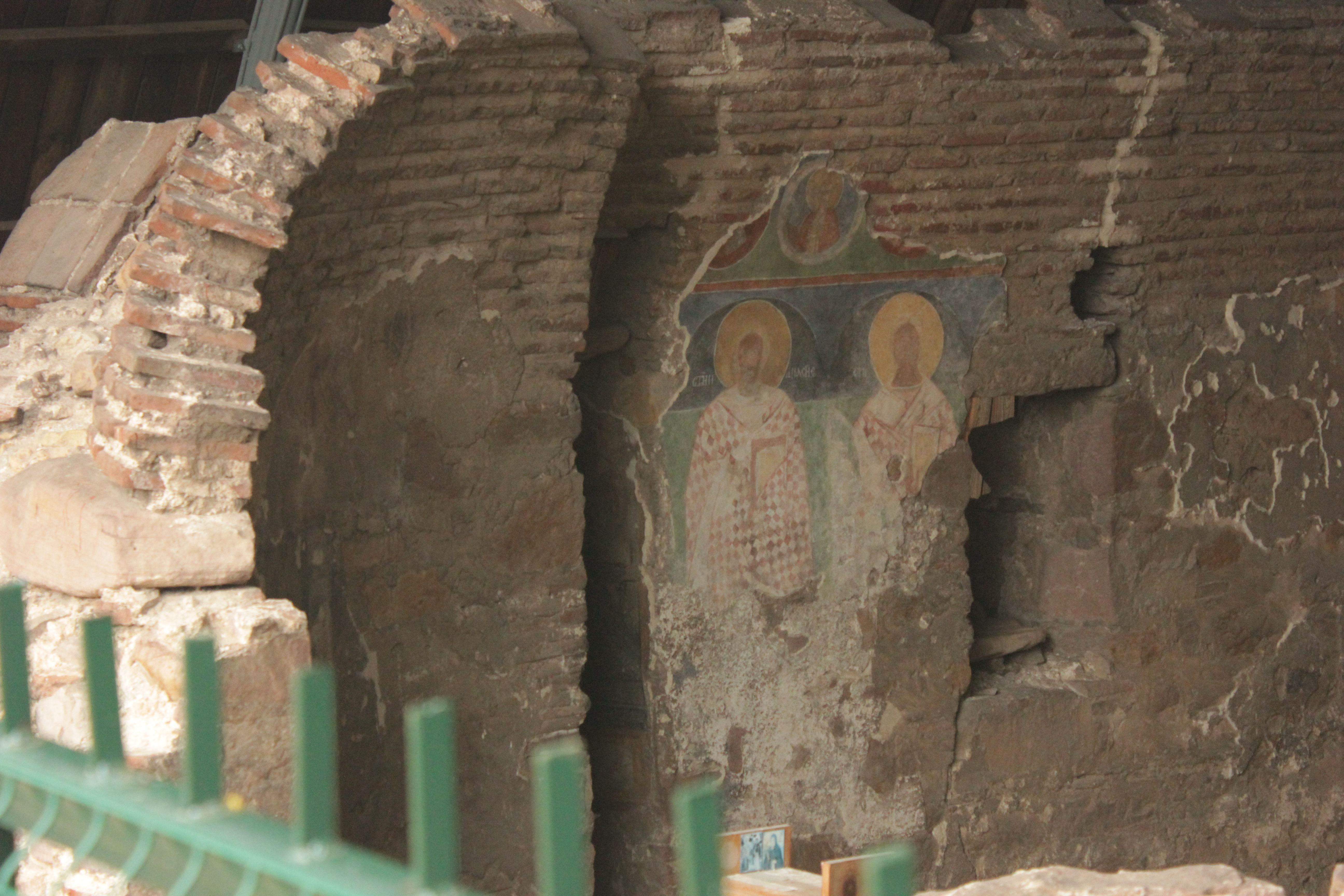 Medieval frescos in Balsha in ancient Saint Petka church